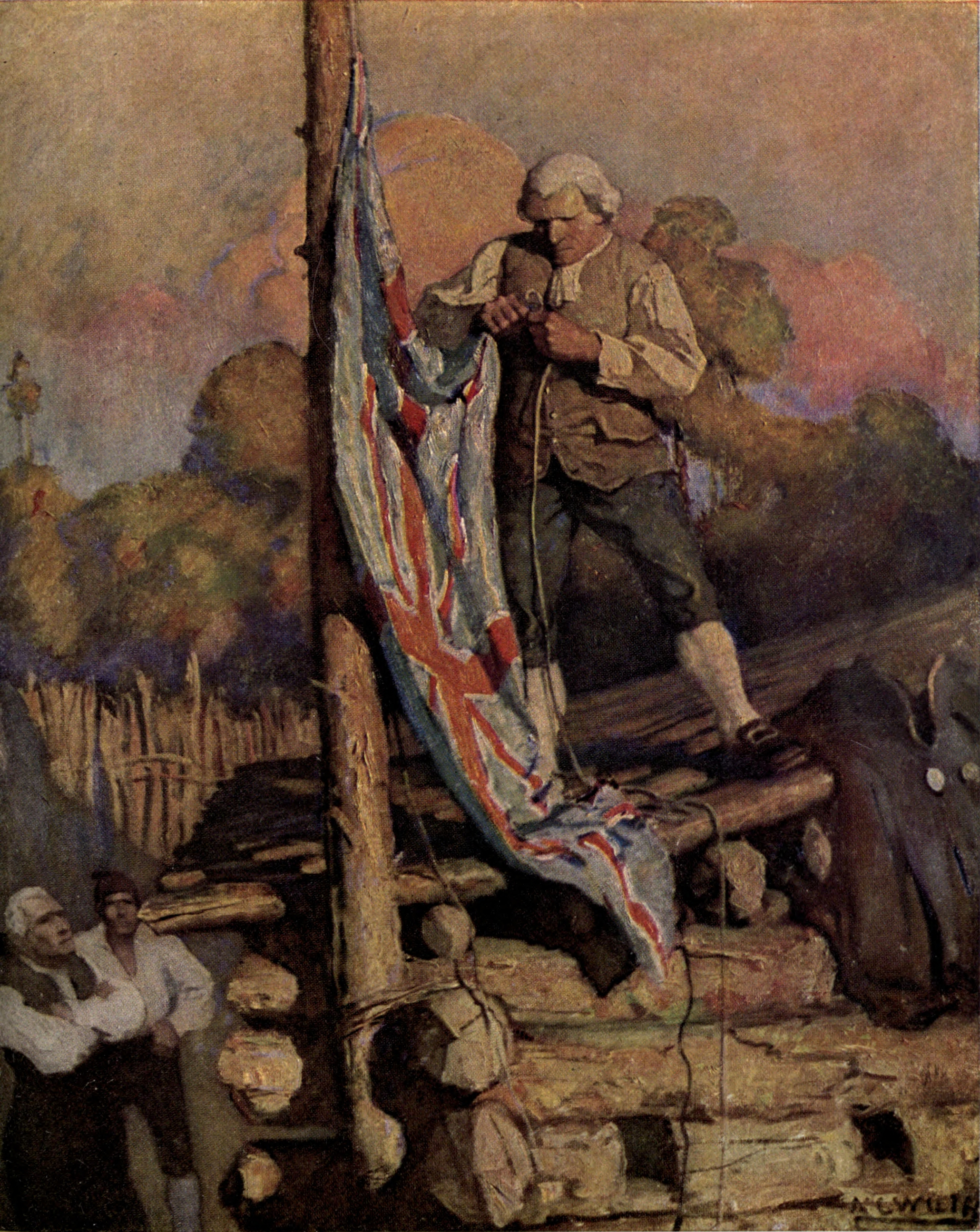 Captain Smollet Defies the Mutineers. Captain Smollett, running up the Union Flag on Treasure Island after the mutiny. Illustration by N. C. Wyeth for Treasure Island by Robert Louis Stevenson, Charles Scribner's Sons, 1911